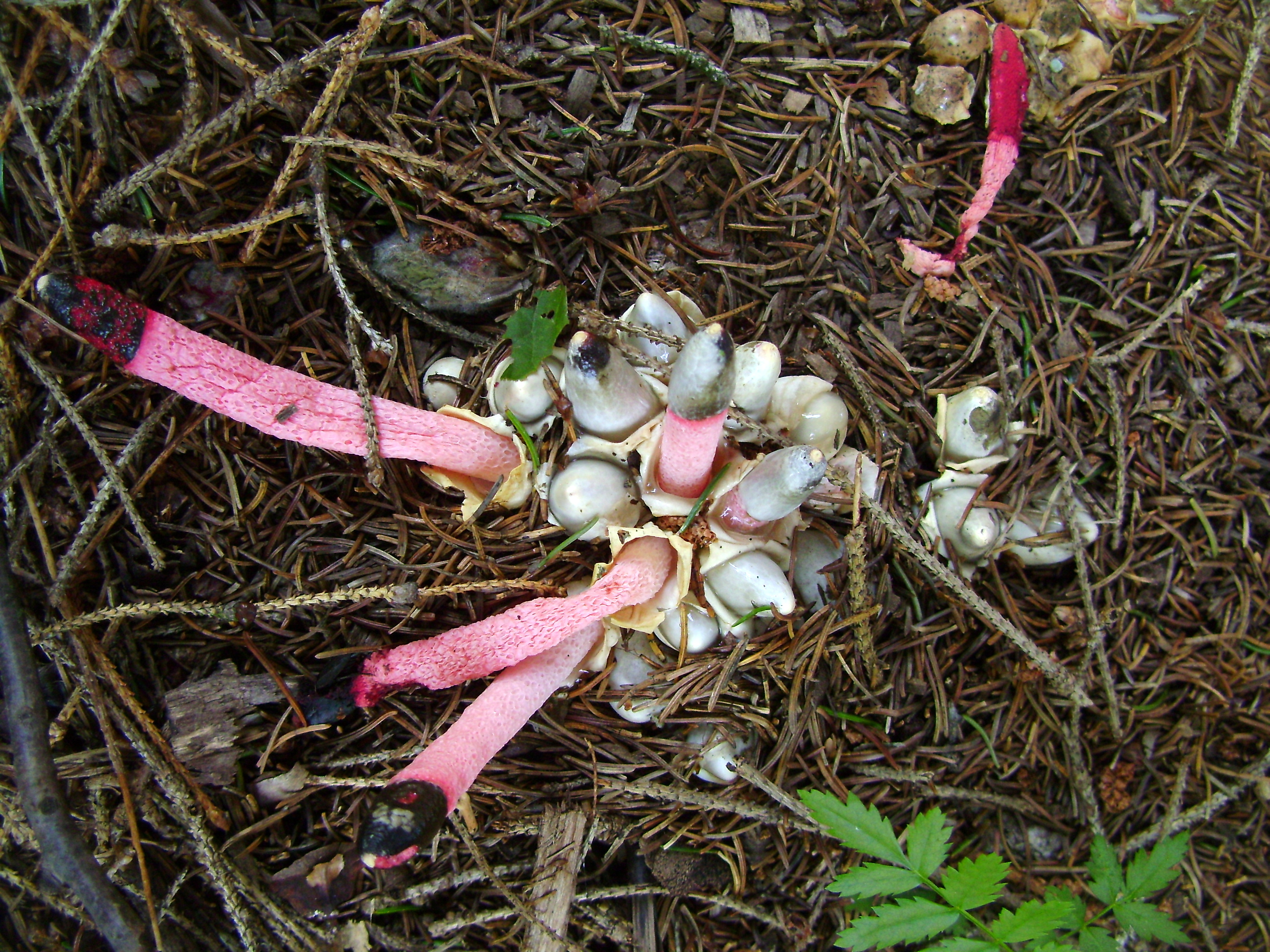 Group of stinkhorns (Mutinus ravenelii) in a white spruce (Picea glauca) grove in Saint-Pacôme, Québec.